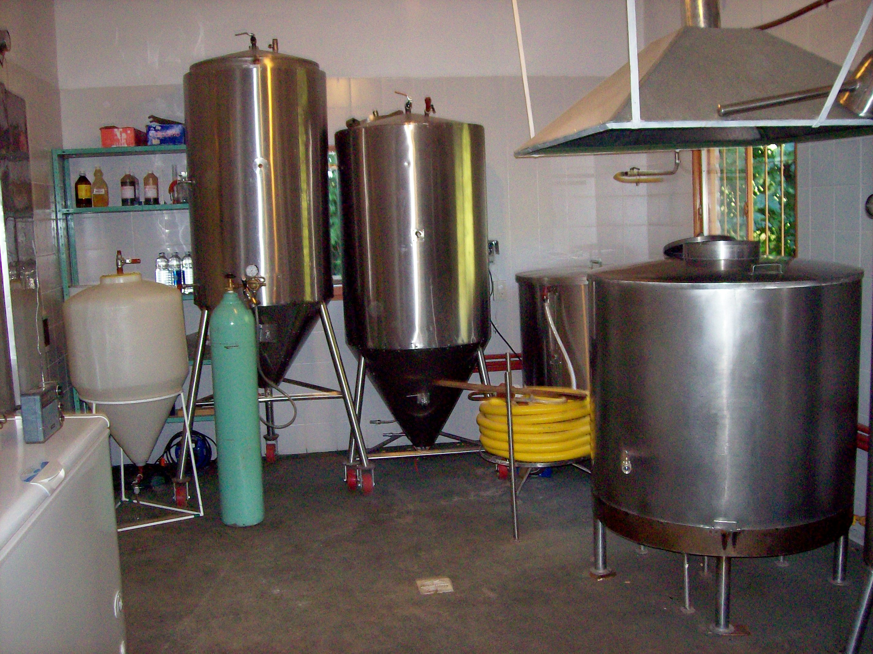 Artesanal beer "Piedra y camino"